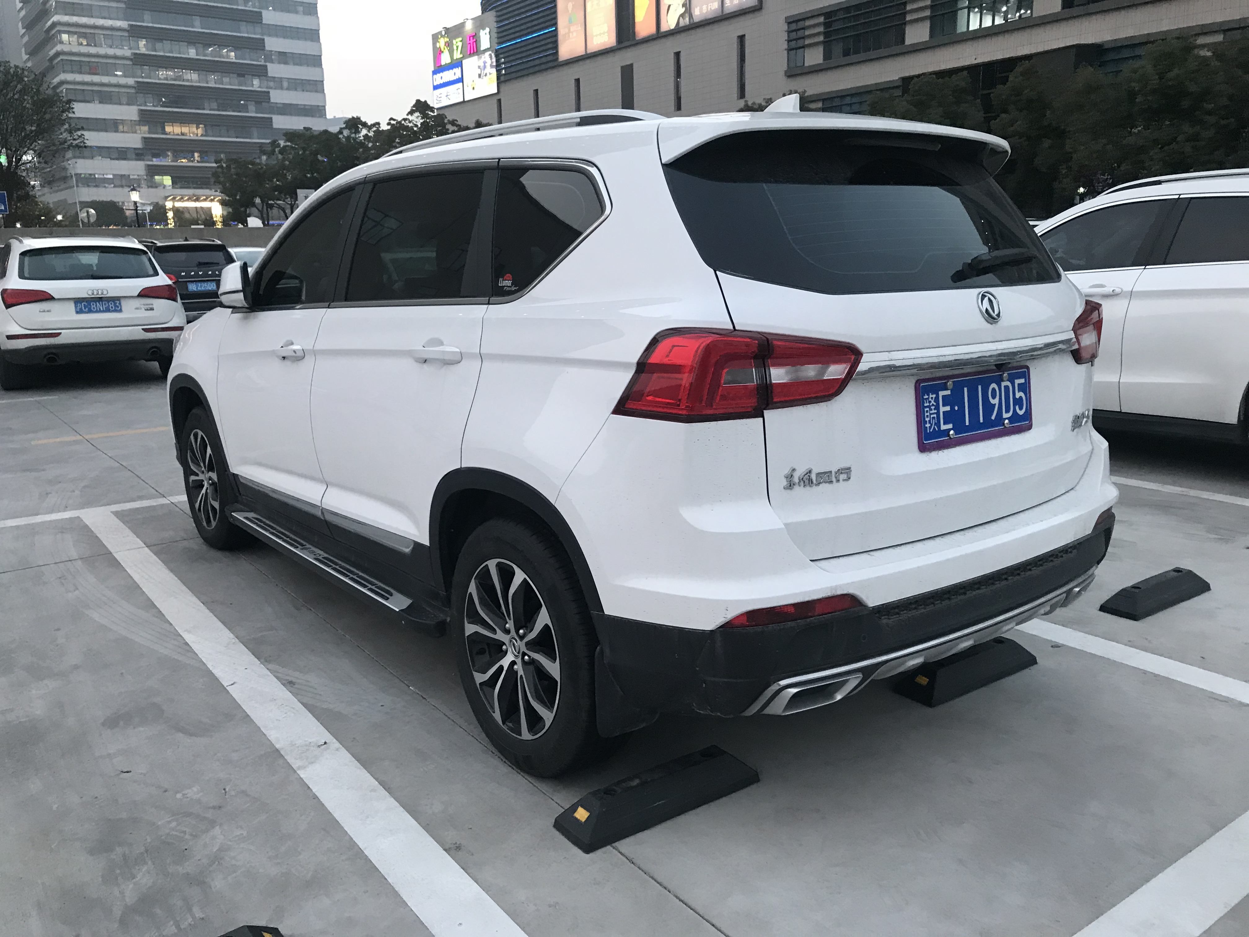 Dongfeng Liuzhou Jingyi X5